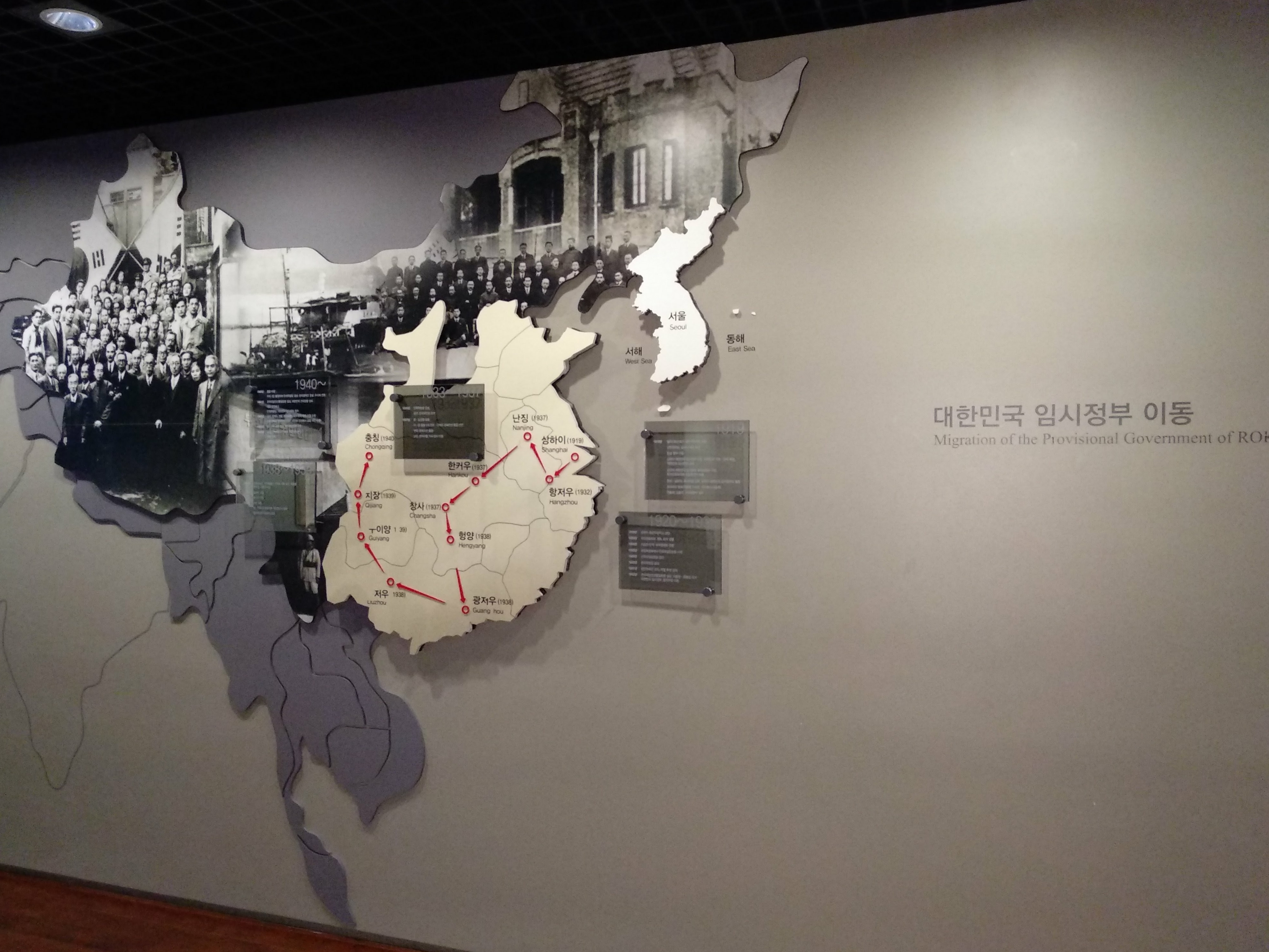 Migration Map of the Provisional Government of the Republic of Korea exhibited at the National Museum of Korean Contemporary History